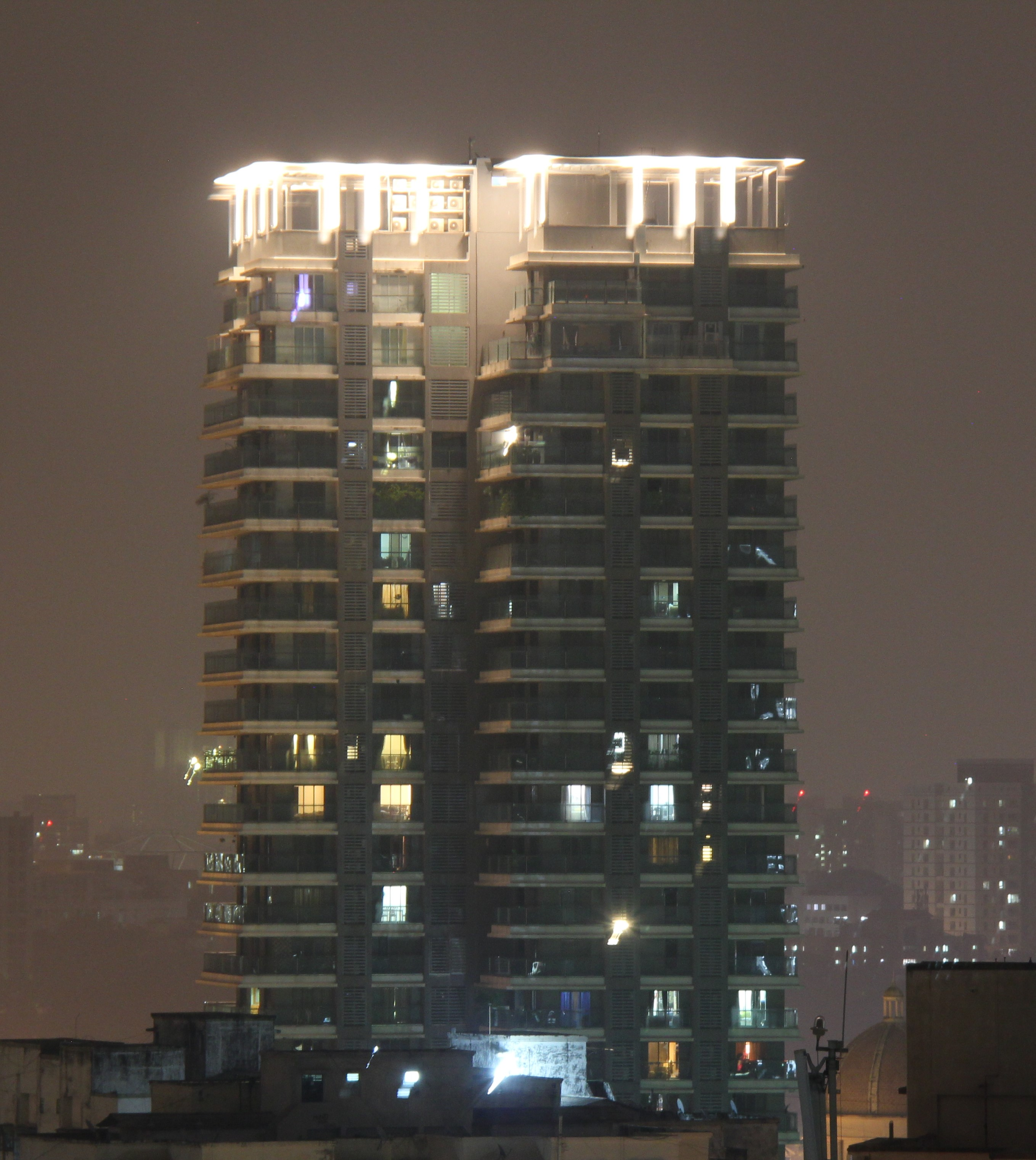 Solitaire building in Powai, opposite Powai lake.